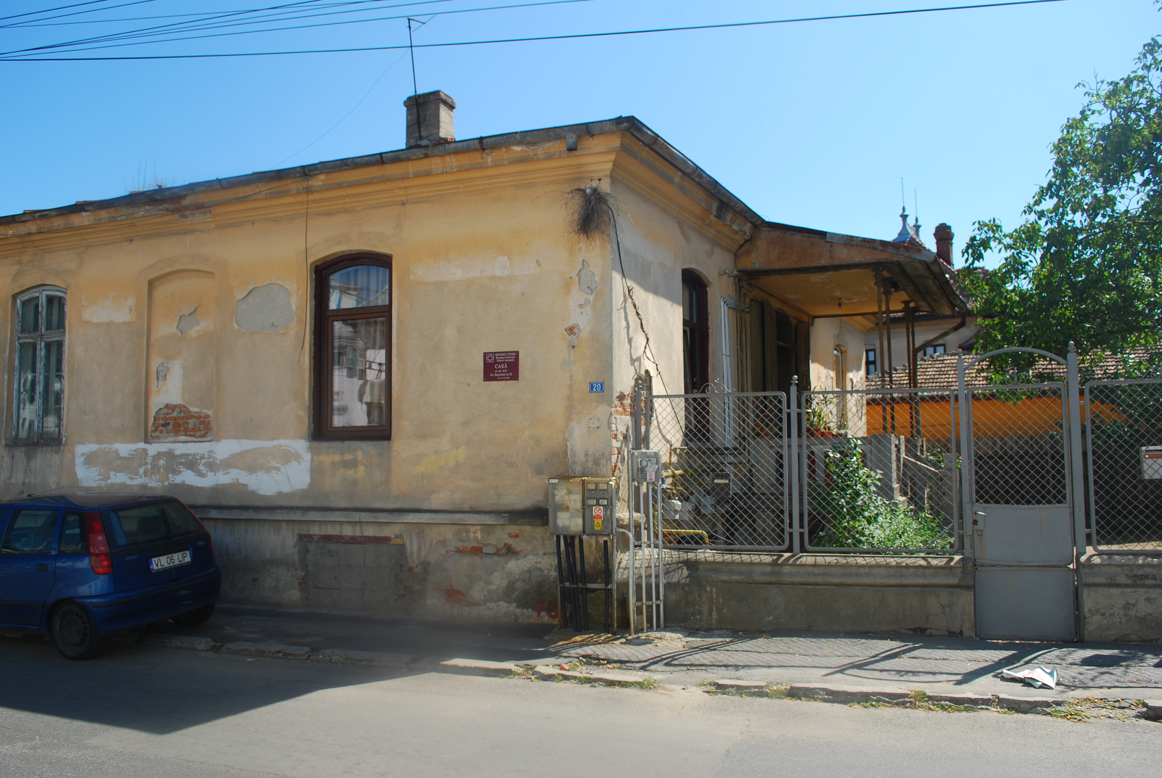 House in 20 Bujorului street, Craiova, Romania